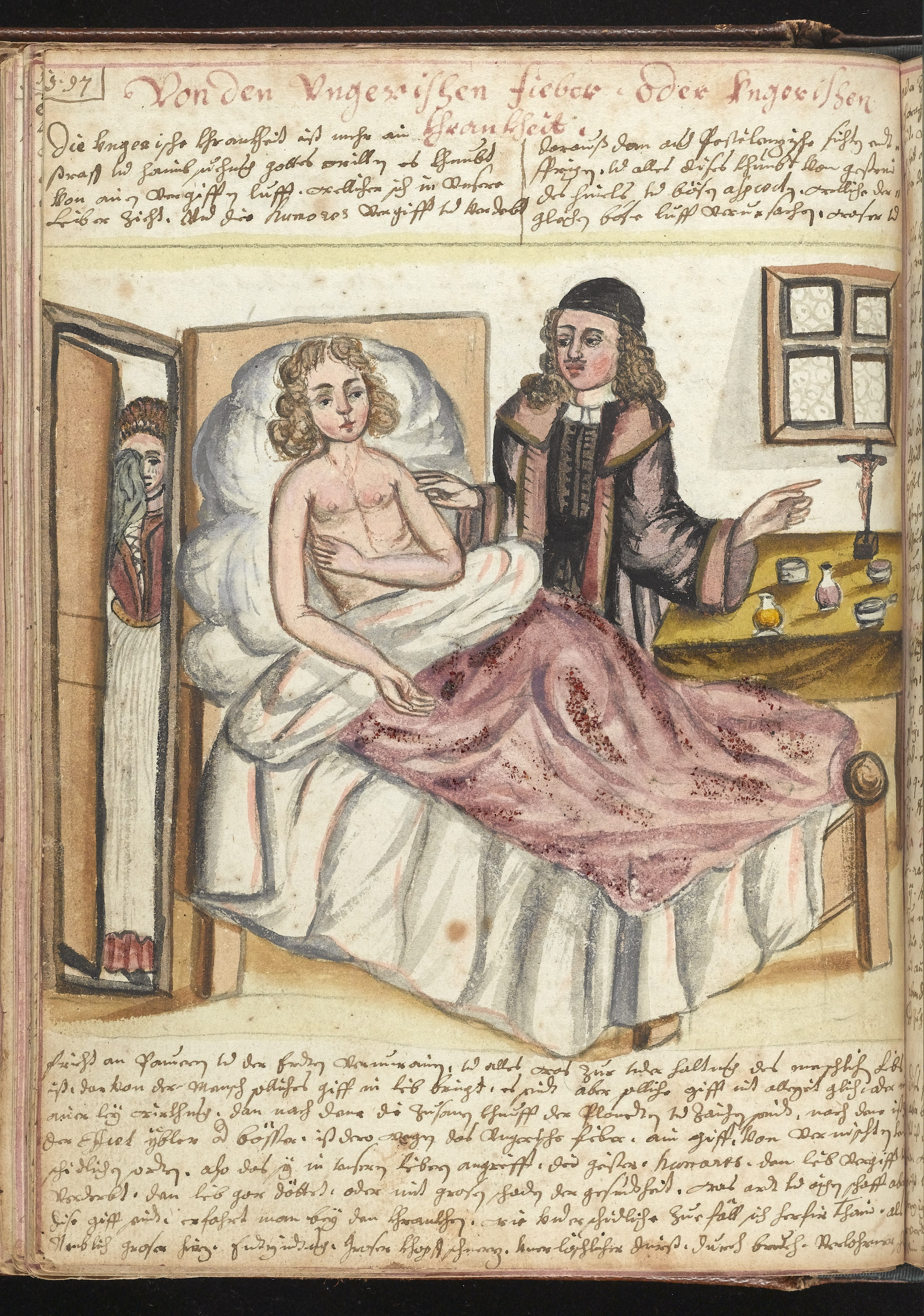 A physician delivers the diagnosis to his patient, at the door a woman cries on hearing the patient's fate. Archives & Manuscripts Keywords: Diagnosis; Doctor and patient